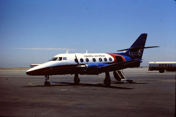 Manufacturer: Handley Page Designation: HP-137 Jetstream Airline: Apollo Airways